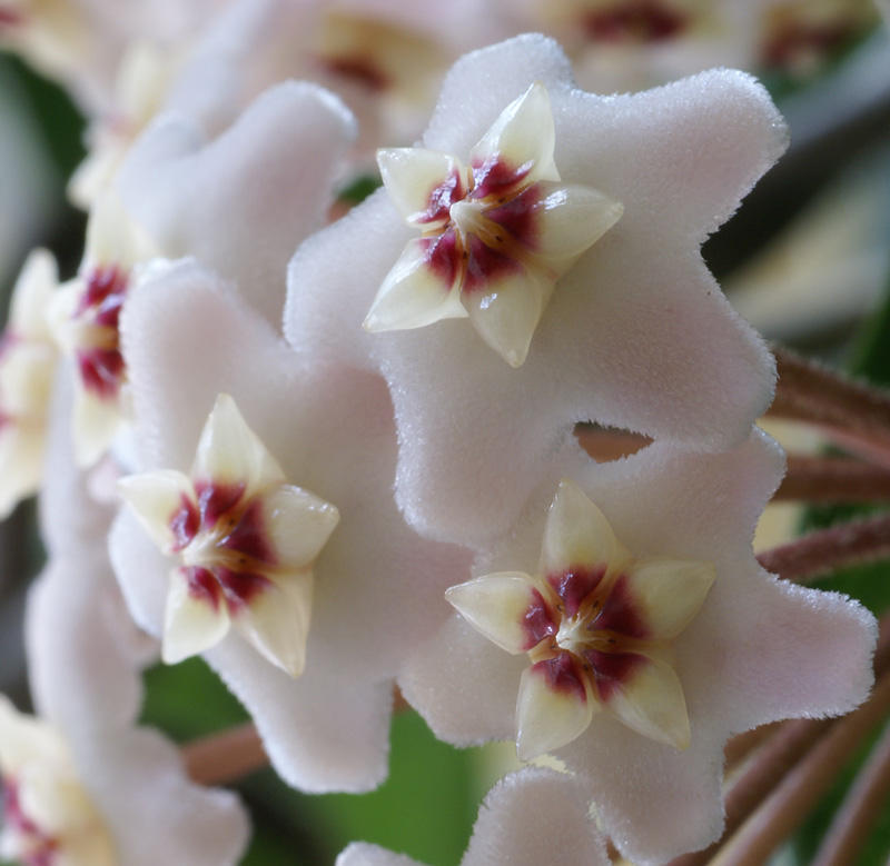 Fastson 13:30, 1 August 2007 (UTC)